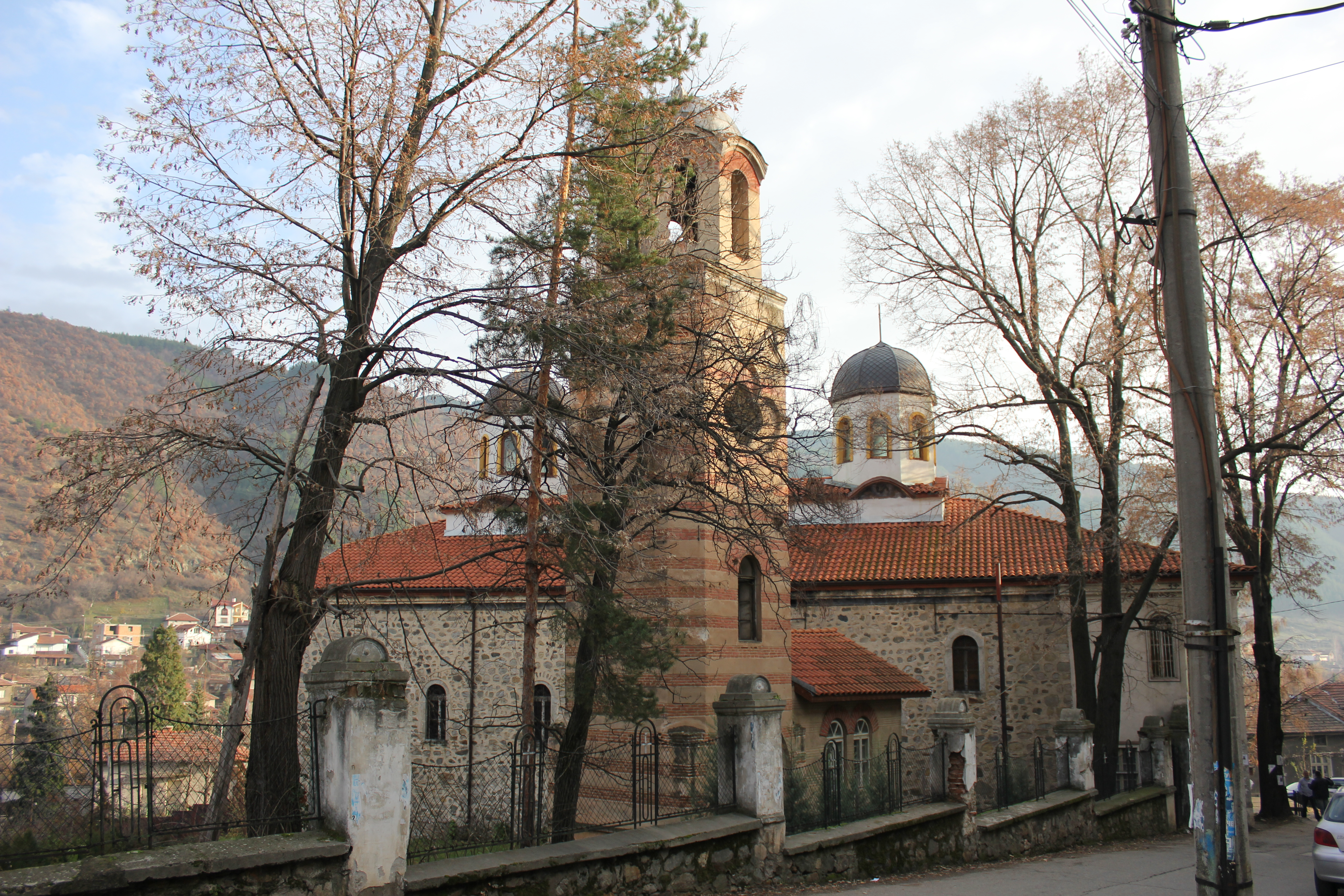 Saint Nicolas church in Rila (town)